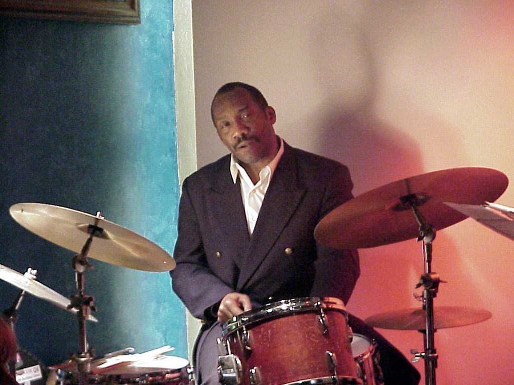 Alvin Queen - Cedar Walton Trio, Dachau 2001